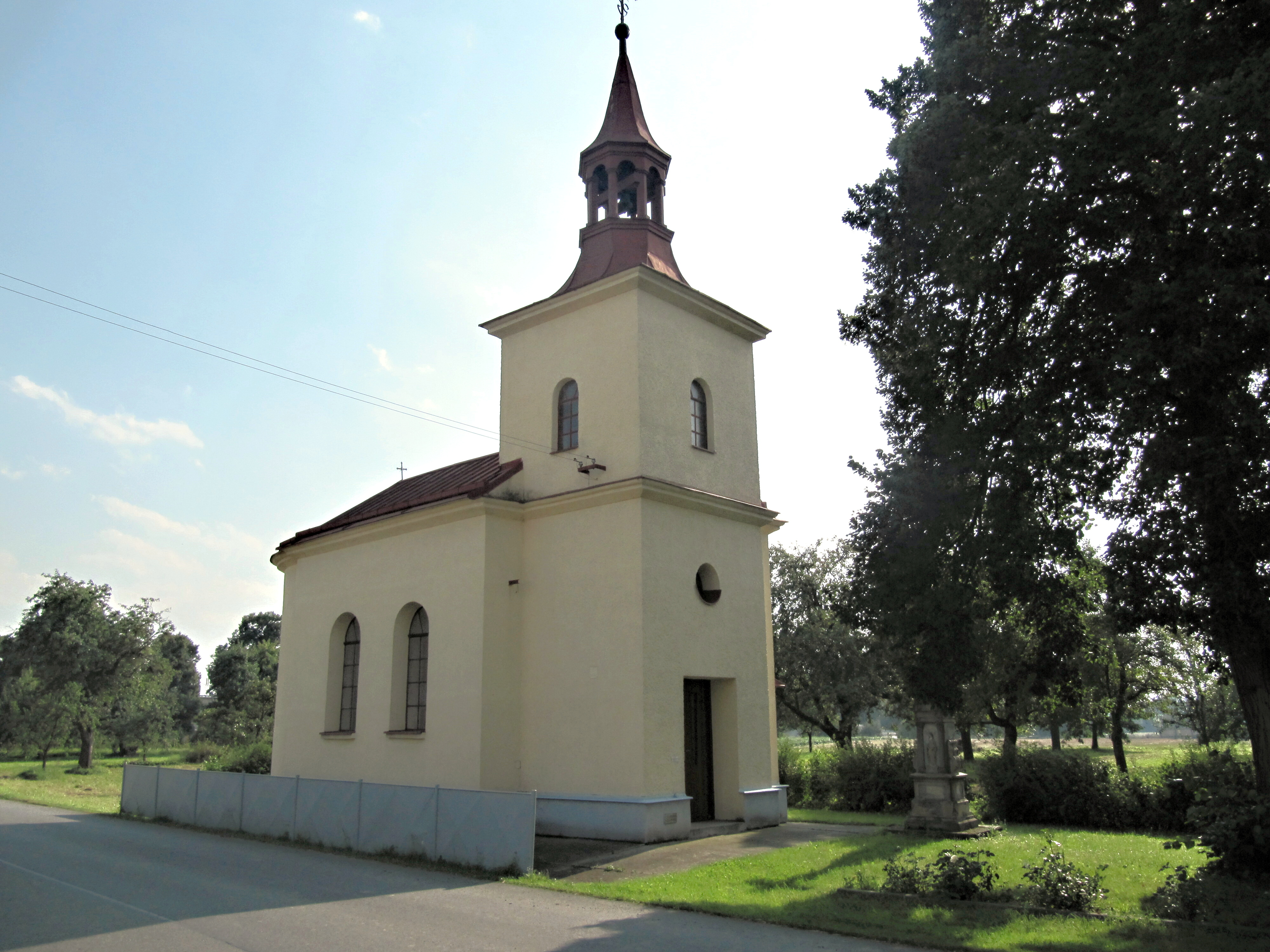 Oldřichov, Czech Republic, Přerov District. Chapel of the Holy Apostles Philip and James from 1899. This photograph was taken within the scope of the third year of the 'Czech Municipalities Photographs' grant.